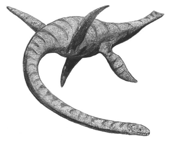 Plesiosaurus dolichodeirus drawing by Adam Stuart Smith.